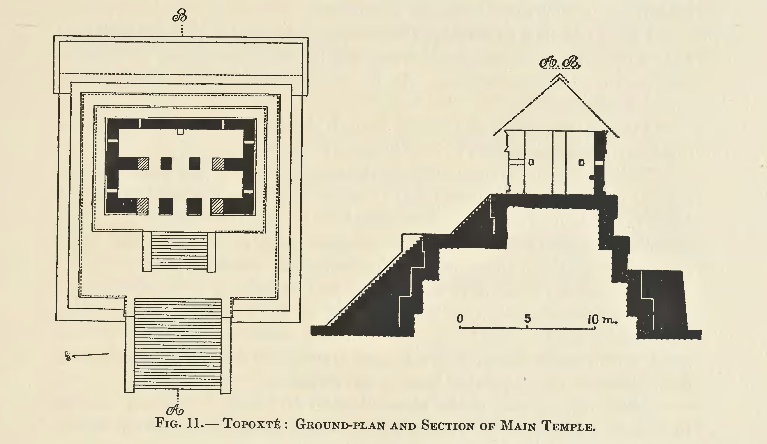 Illustration from Teoberto Maler's Explorations of the upper Usumatsintla and adjacent region published in 1908. Figure 11 from page 59. Topoxté: Ground-plan and section of Main Temple.